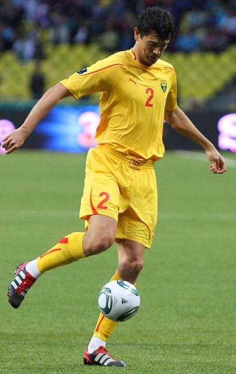 Vanče Šikov with Macedonia national football team.